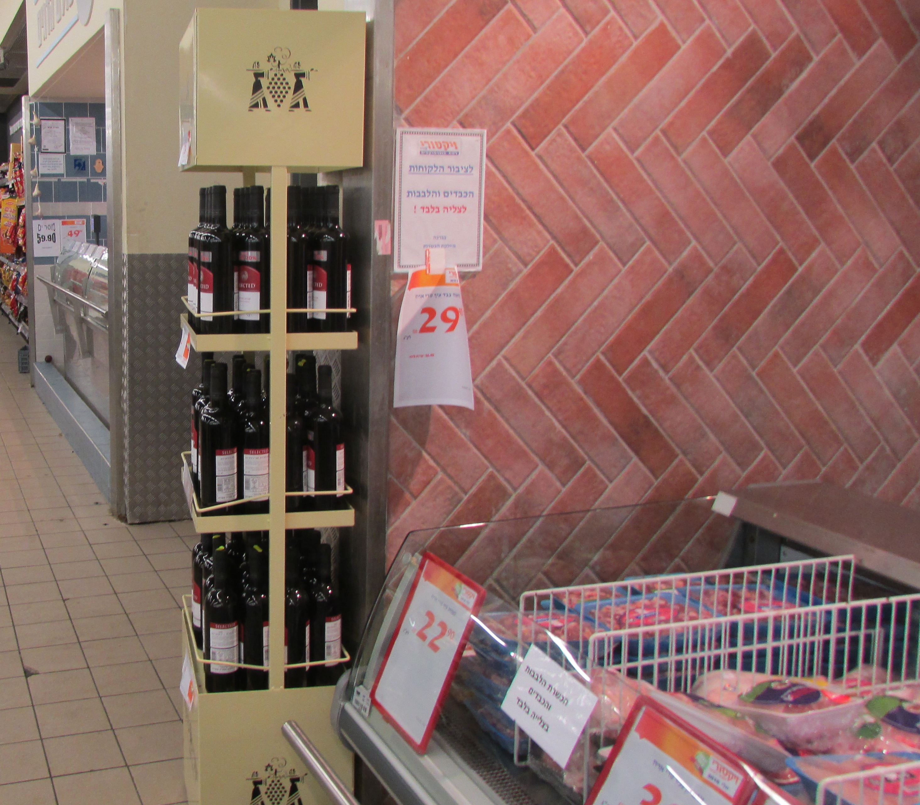 Signs in a supermarket reminding clients that Liver and heart should be roasted for Kashrut.